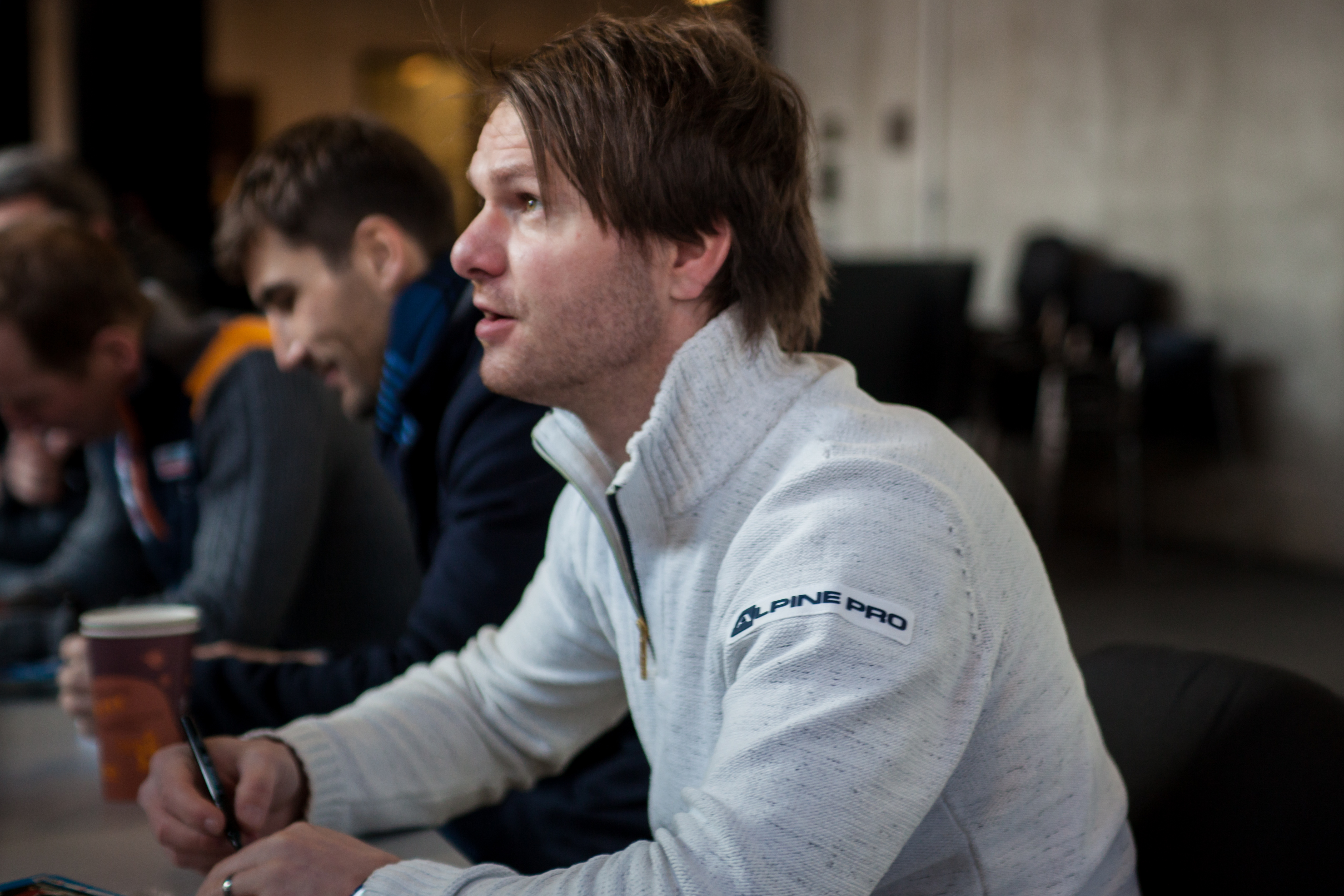 Jan Mazoch on cross-country race ČEZ City Cross Sprint 2019